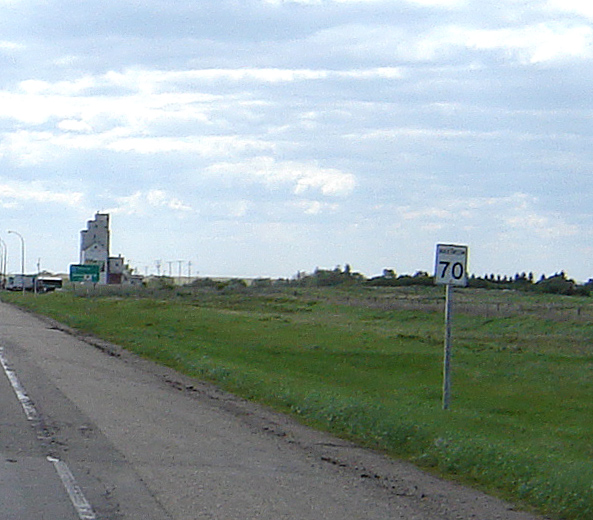 Maximum 70 Speed Limit Road Sign through Chamberlain, usual highway speed is 100 kilometers per hour and occasionally 110 kilometers per hour unless otherwise posted. Saskatchewan Highway 11, Louis Riel Trail travelling south from Saskatoon to Regina Road Information Sign - Saskatchewan Highway 11 South, Louis Riel Trail: Note the divided highway is now a two way highway through Chamberlain